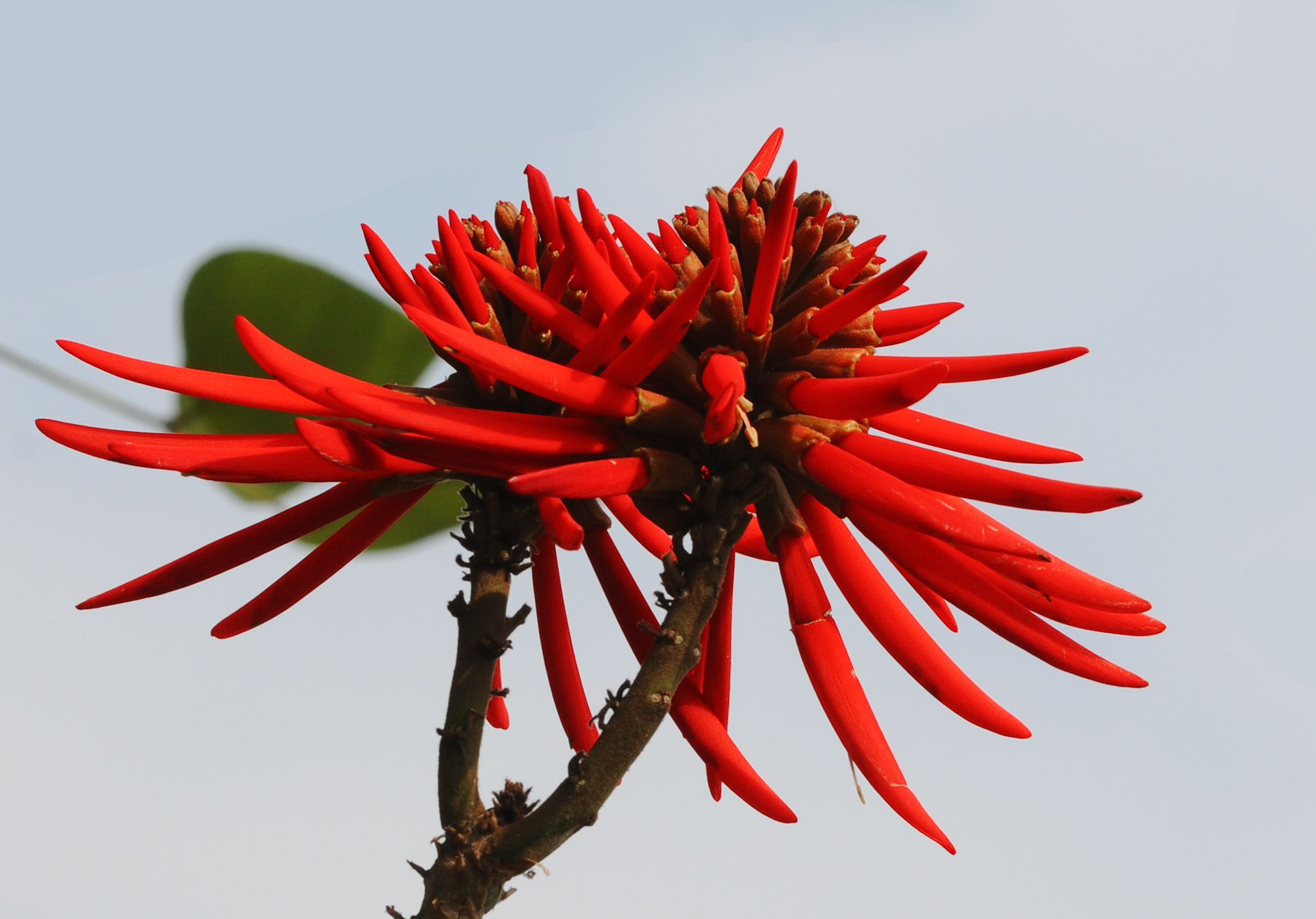 Flowers of Flame Coral Tree or Naked Coral Tree (Erythrina coralloides) originating from Mexico. Die Flora und der Botanische Garten Köln. Cologne, Germany.